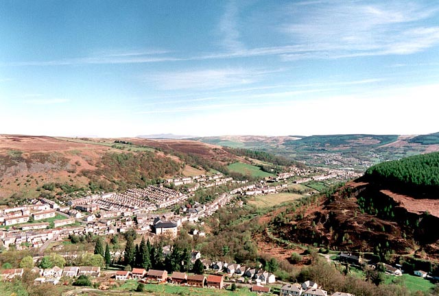 Cwmaman, Rhondda Cynon Taff, Wales